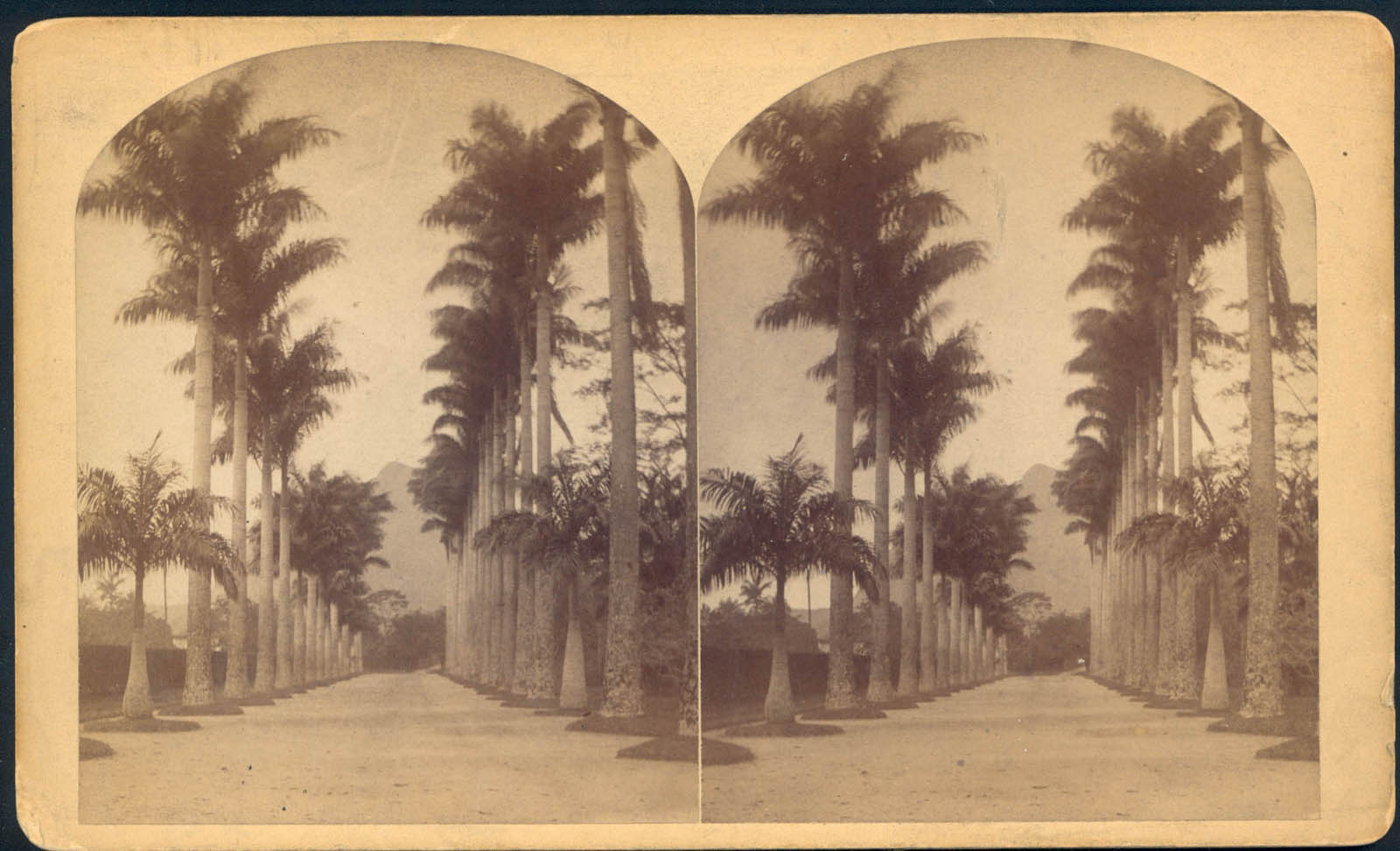 William Bell's stereograph of the Botanical Garden, Rio de Janeiro, 1882. A palm tree avenue (landscape allée) of Roystonea oleracea palms along the main garden walkway, still extant 130 years later.